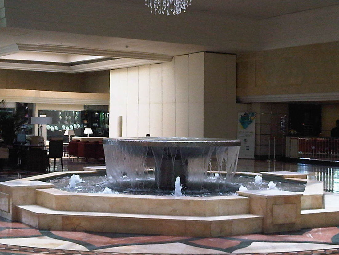 The foyer of the five star hotel - the Cinnamon Grand Hotel in Colombo, Sri Lanka.